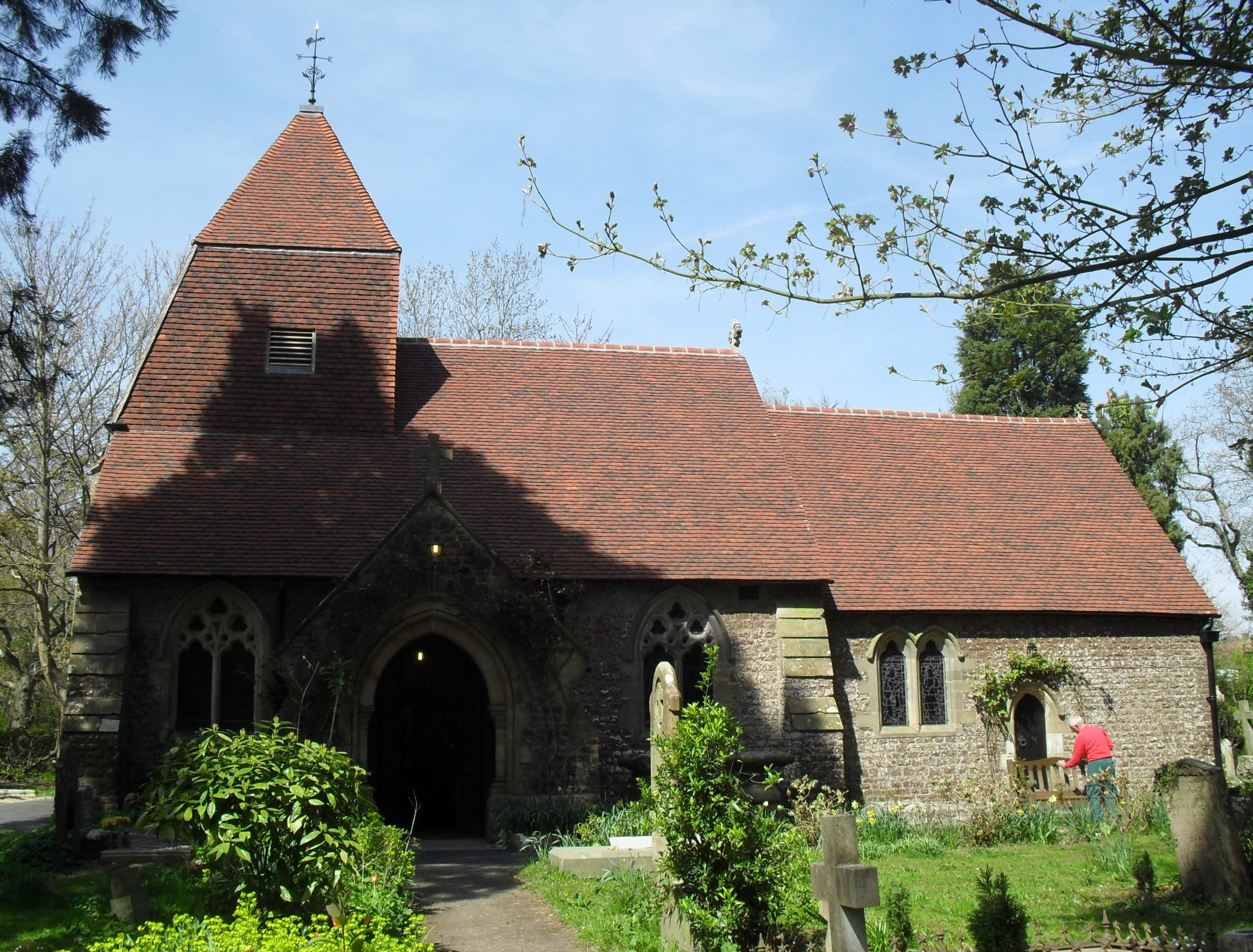 South face of St Leonard's Church (Church-in-the-Wood), Church in the Wood Lane, Hollington, Hastings, East Sussex, England. This is a restored 13th-century Anglican church in the middle of a wood and nature reserve in the Hollington area of Hastings. Listed at Grade II by English Heritage (Heritage Gateway Code 293741)